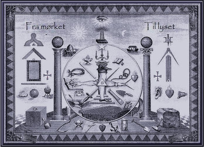 Alle frimurer symboler